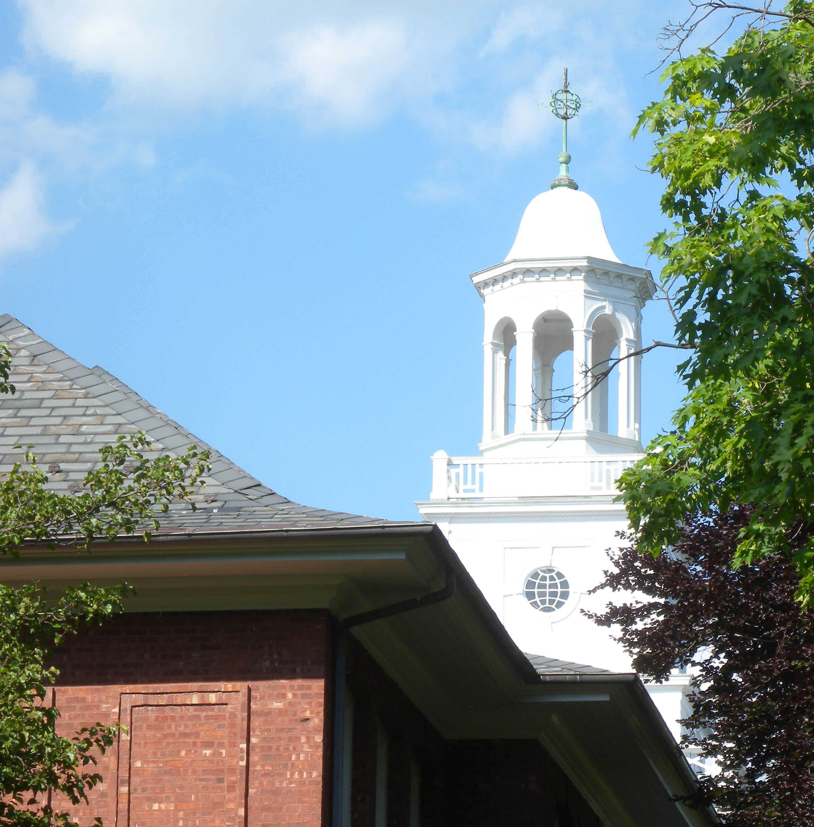 Looking northeast at cupola of Maplewood Junior High on a sunny early afternoon.